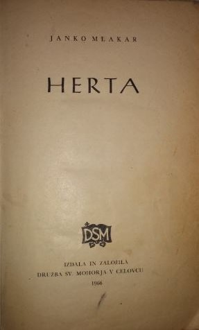 Prva stran knjige Herta